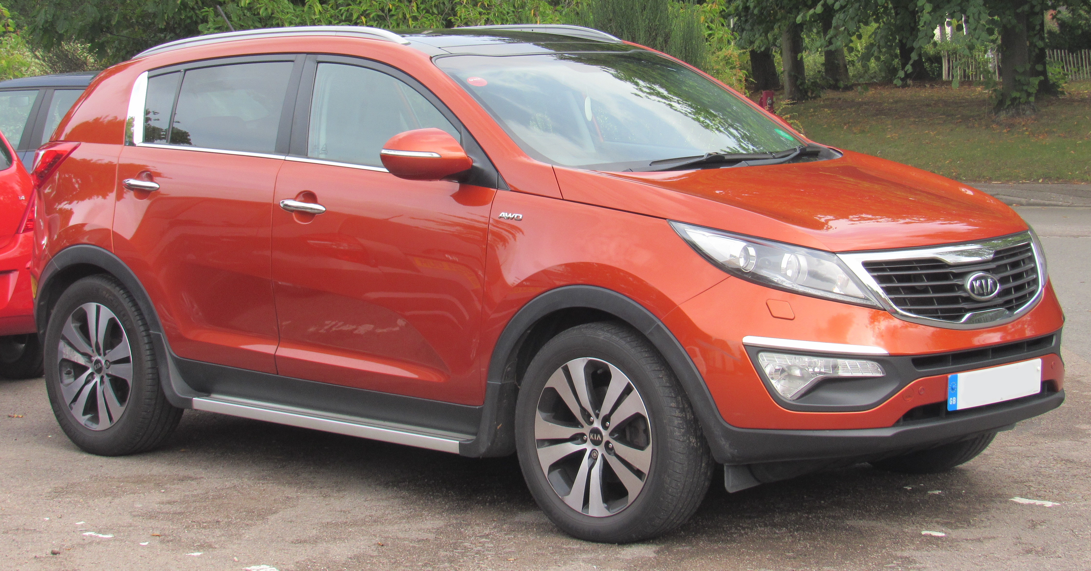 2012 Kia Sportage KX-3 CRDi 2.0 Taken in Leamington Spa